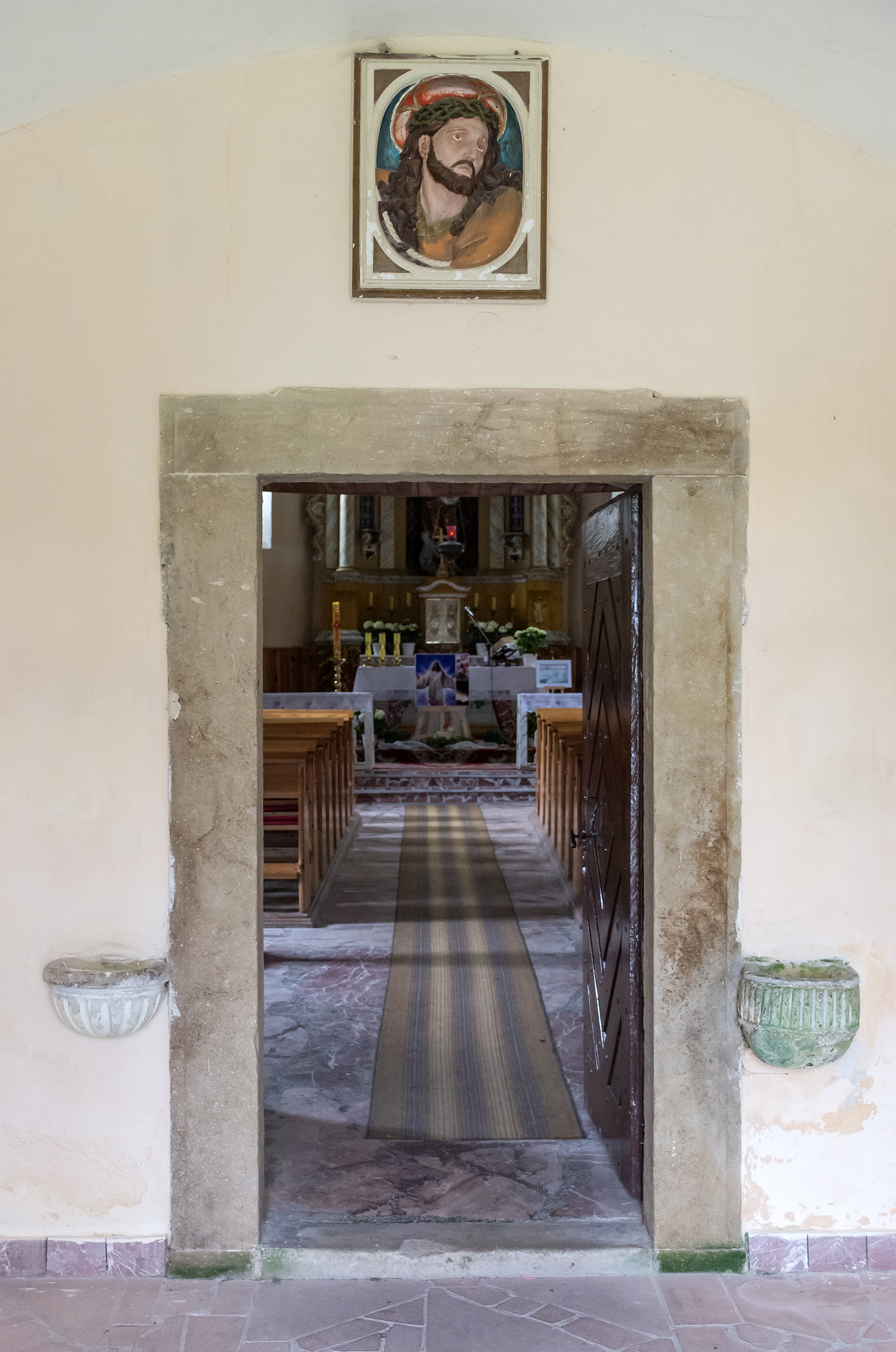 Saint John the Baptist church in Pasterka